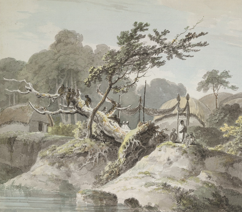 Village near Naya Serai (Bengal) - Water-colour painting